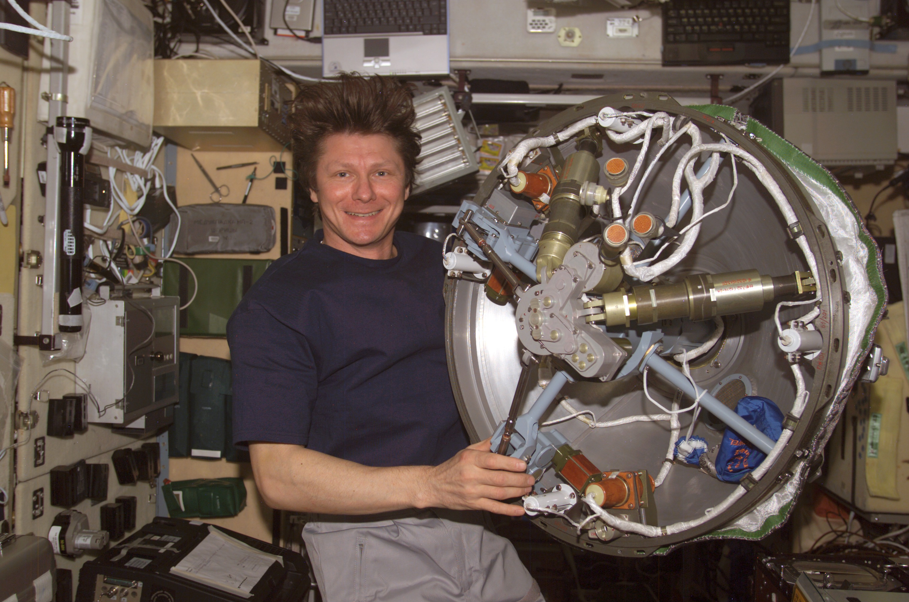 Cosmonaut Gennady I. Padalka, Expedition 9 commander representing Russia’s Federal Space Agency, holds the Progress 15 supply vehicle probe-and-cone docking mechanism in the Zvezda Service Module of the International Space Station (ISS).